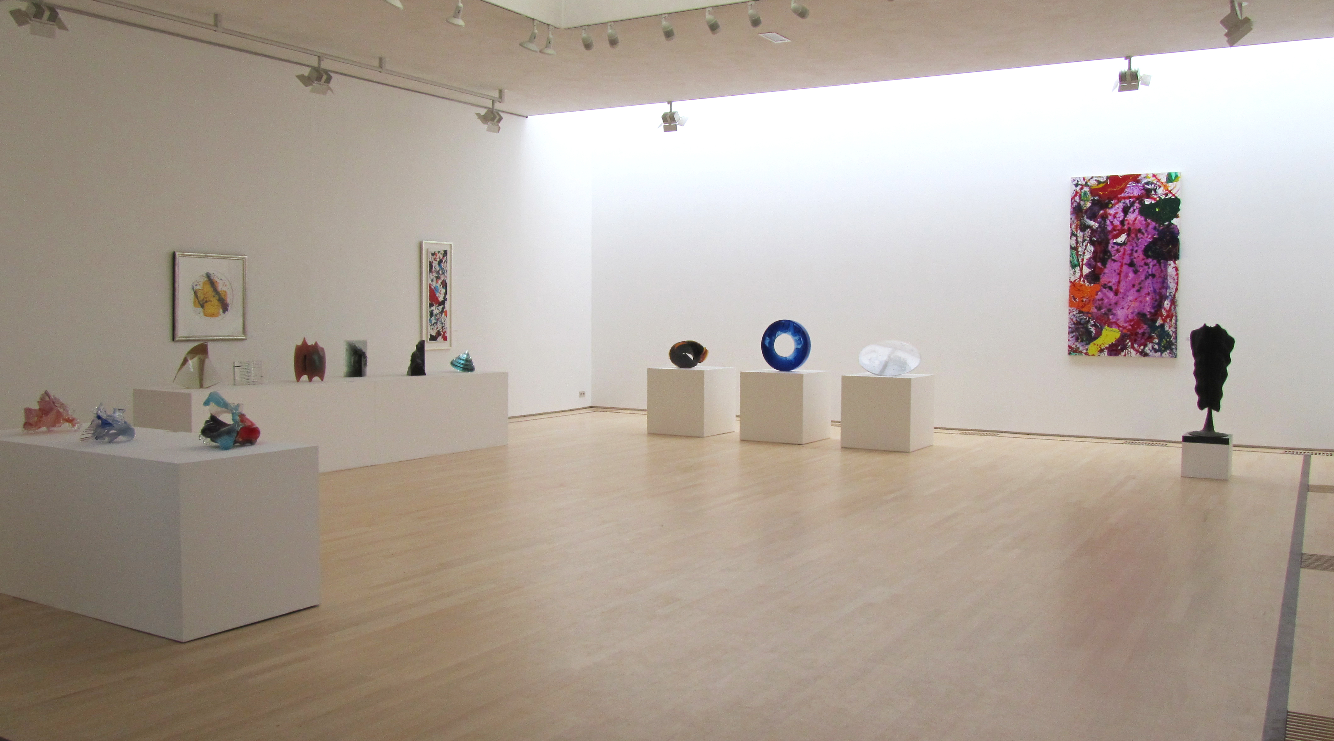 Exhibition in Museum Jan van der Togt with a part of the collection of Sam Francis, Willem Heesen and Aleš Vašíček